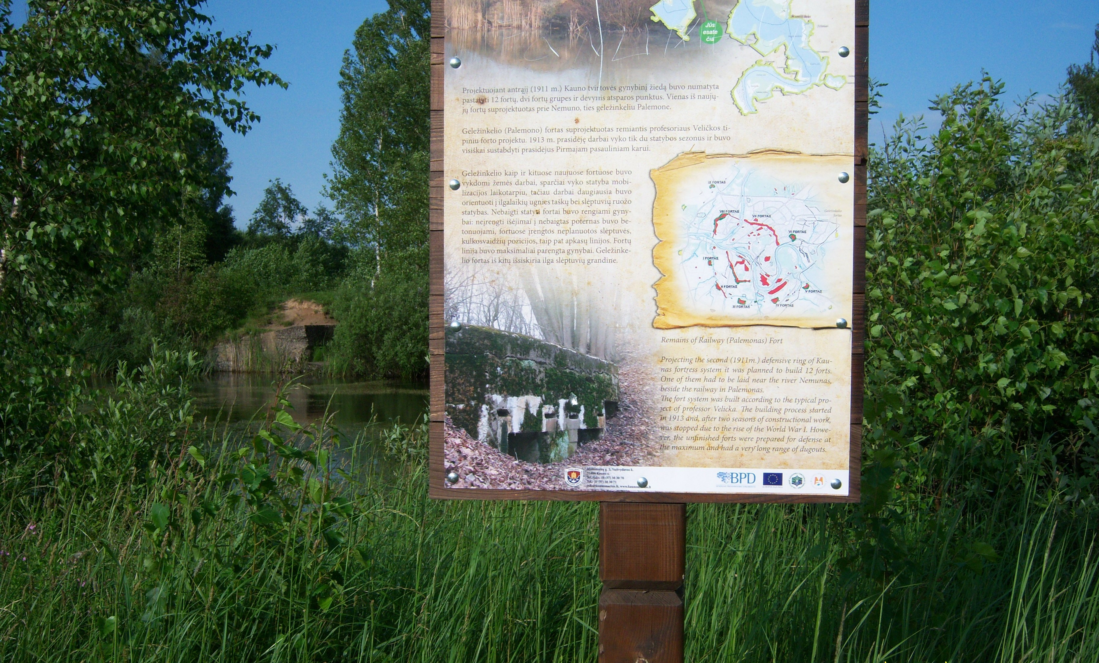 Palemonas Fort, Kaunas, Lithuania